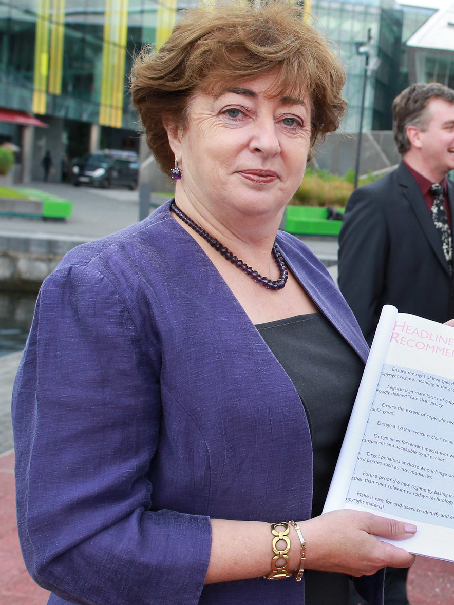 A photograph of Irish politician Catherine Murphy in 2012